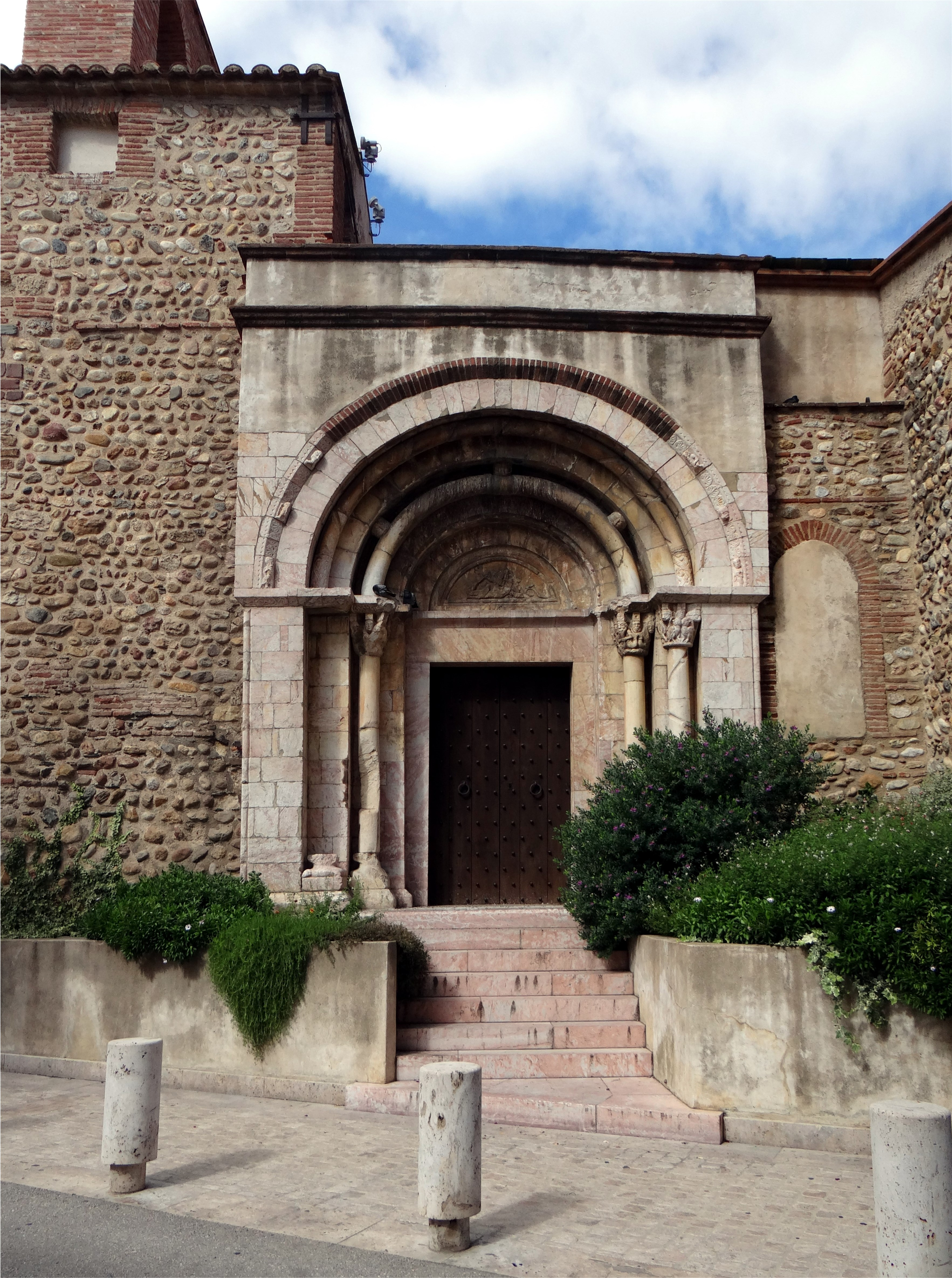 Church of the Assumption of the Virgin, Toulouges, Pyrenees-Orientales, France. South side door.